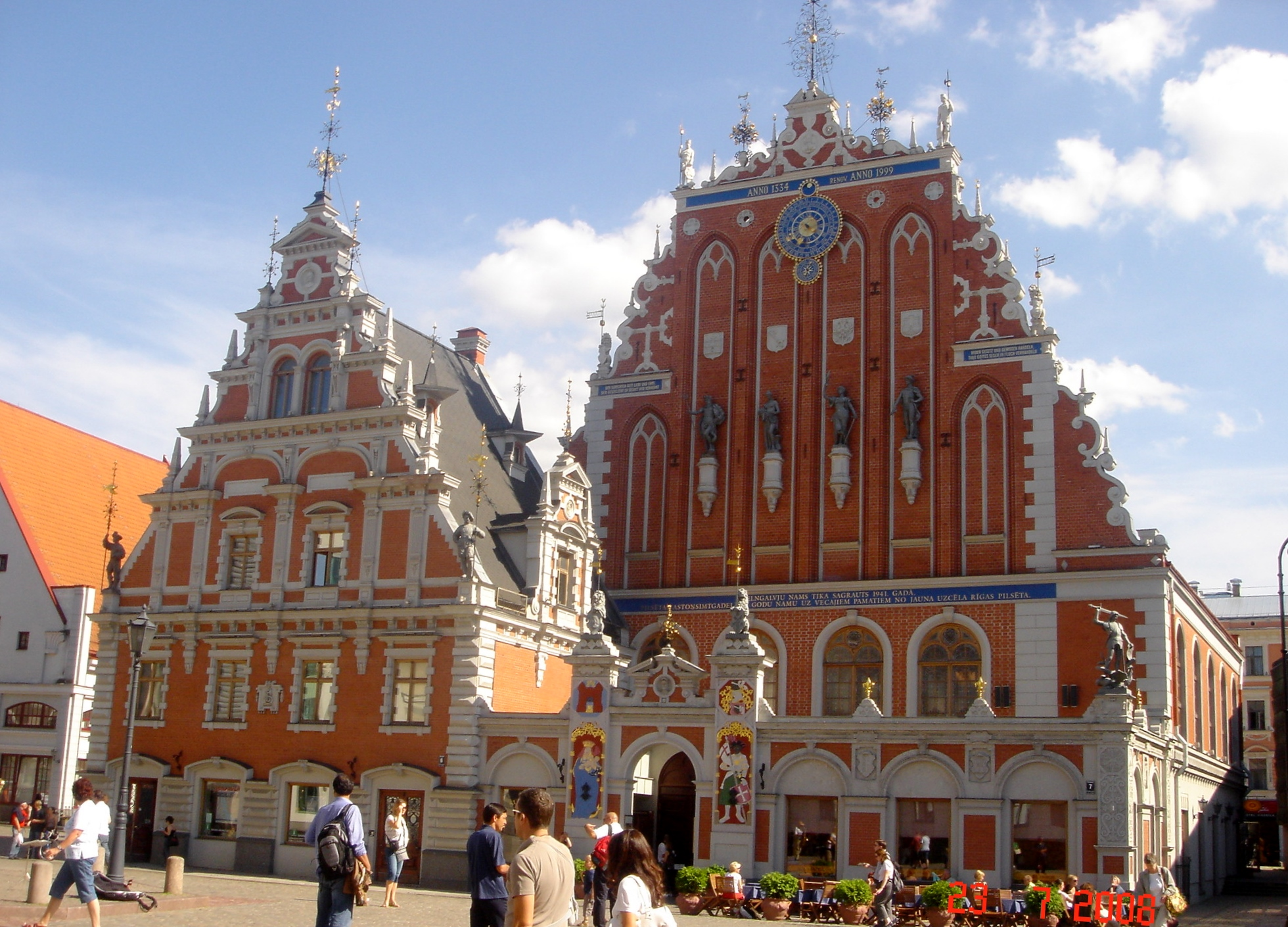 Jugend houses in Riga, Latvia